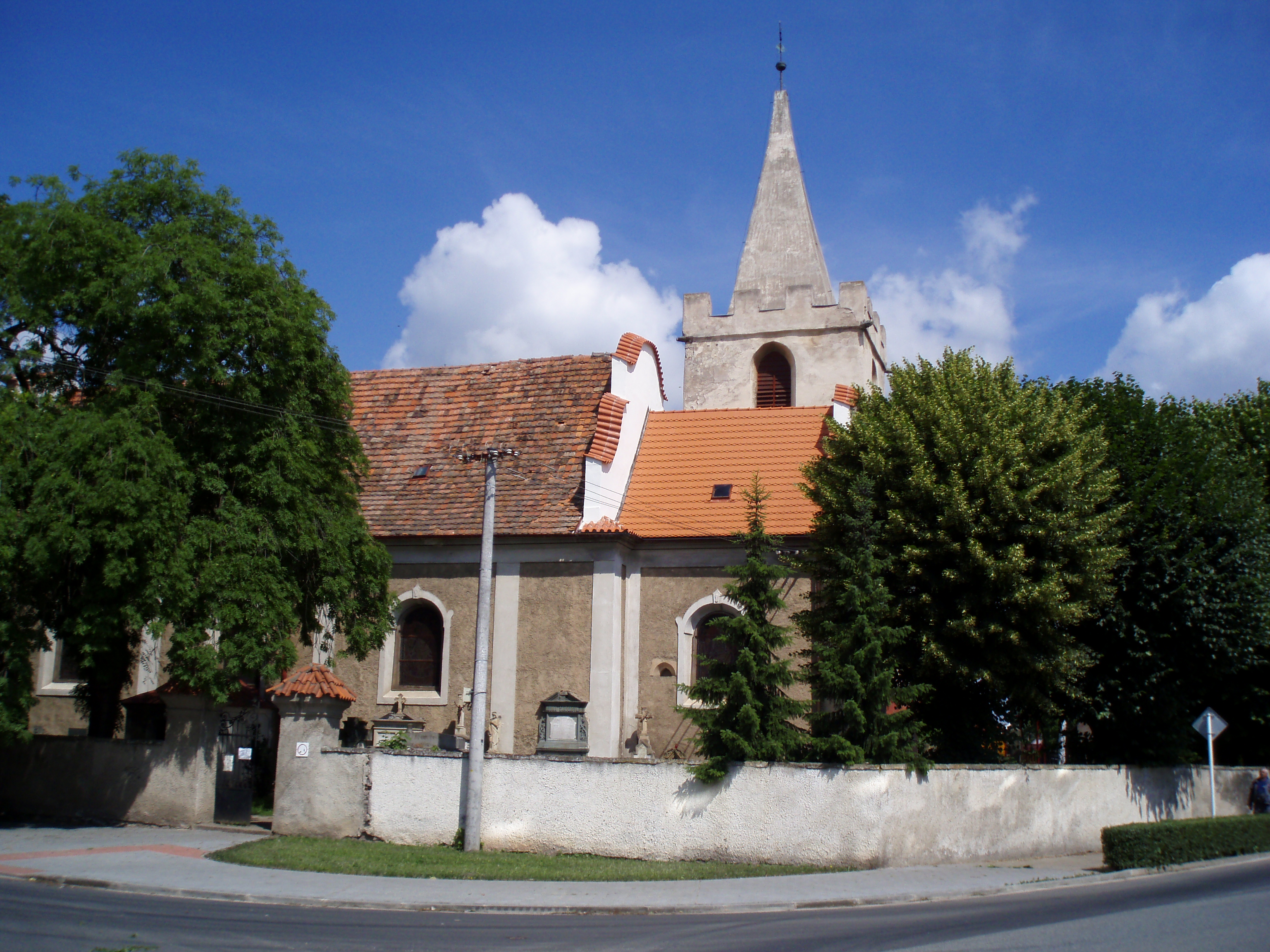 Saint Lawrence Church (Opatovice)